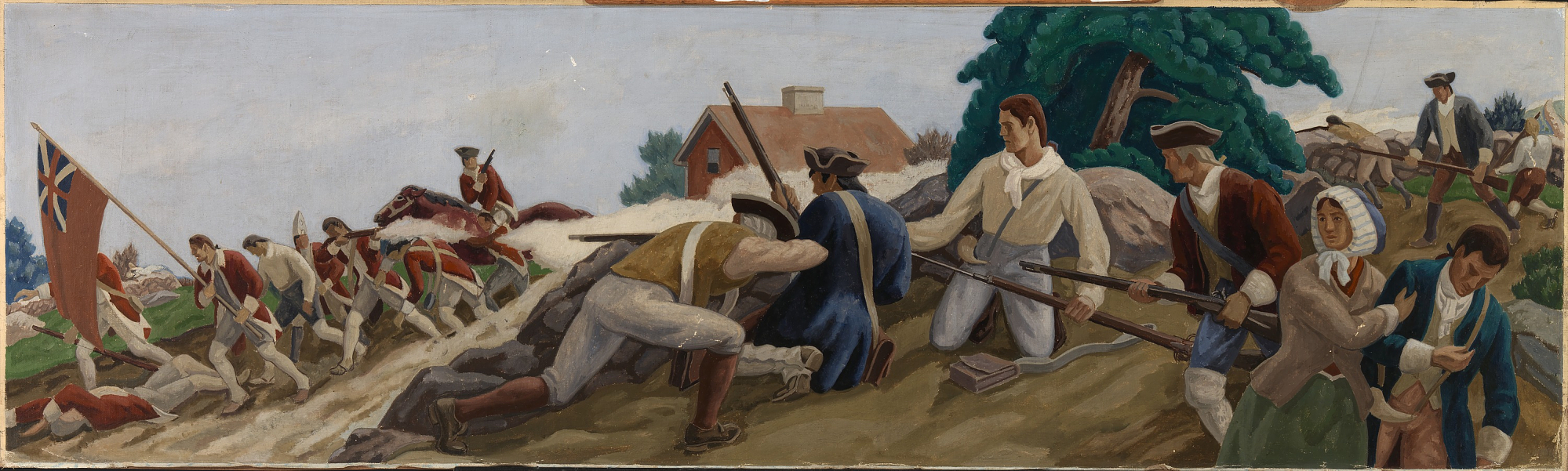 Original description: Ross Moffett, A Skirmish between British and Colonists near Somerville in Revolutionary Times (mural study, Somerville, Massachusetts Post Office), ca. 1938, oil on canvas mounted on fiberboard, Smithsonian American Art Museum, Transfer from the General Services Administration, 1980.133.3 Originally file named SAAM-1980.133.3_1.jpg